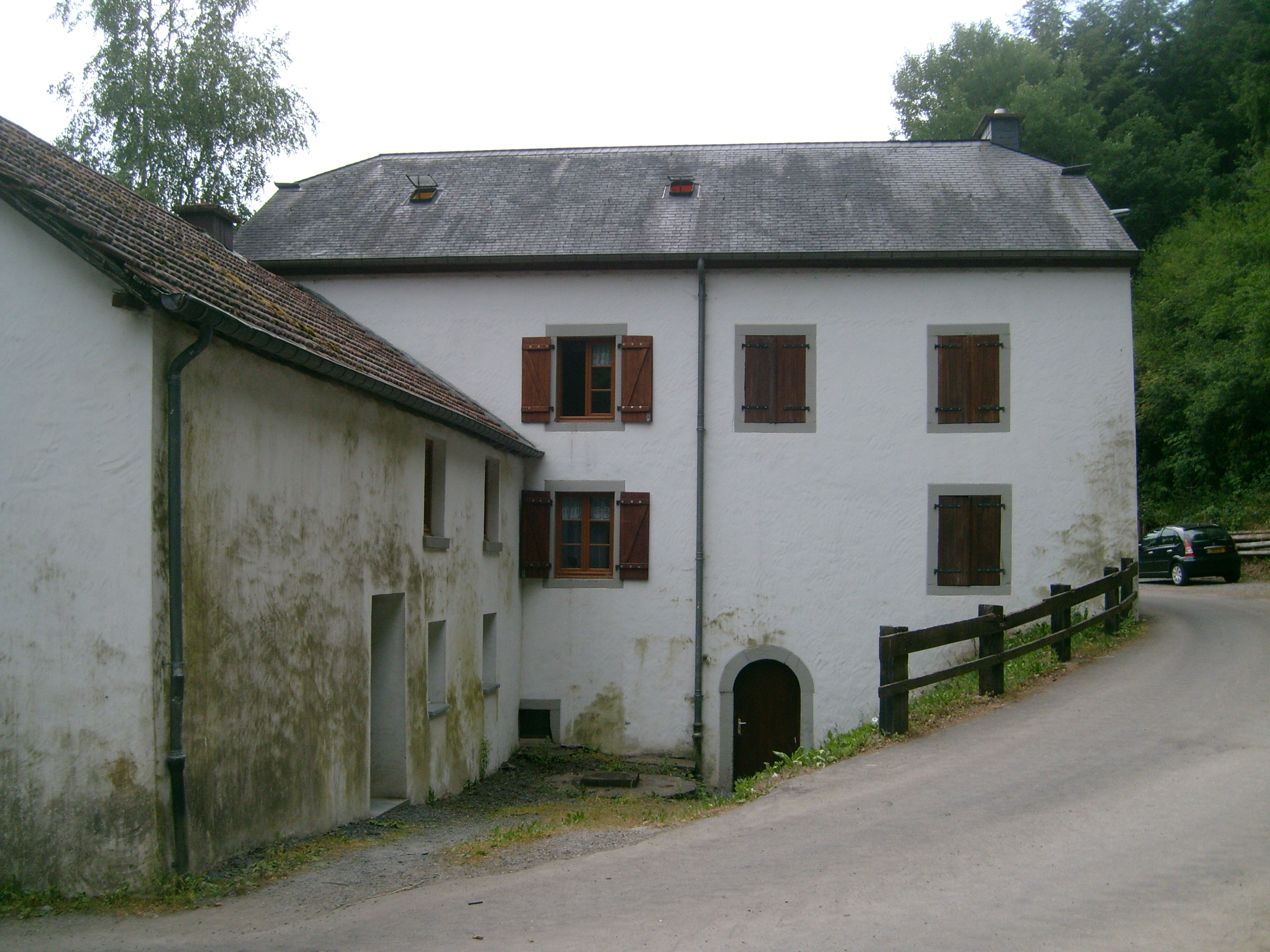 Then former mill Tutschemillen near the town of Wiltz, Luxembourg. Today a scouts camp.